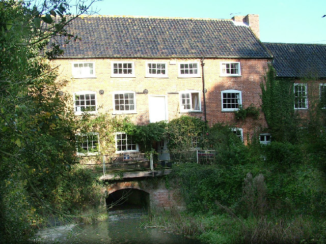 Eade's Mill. Near Reepham, Norfolk